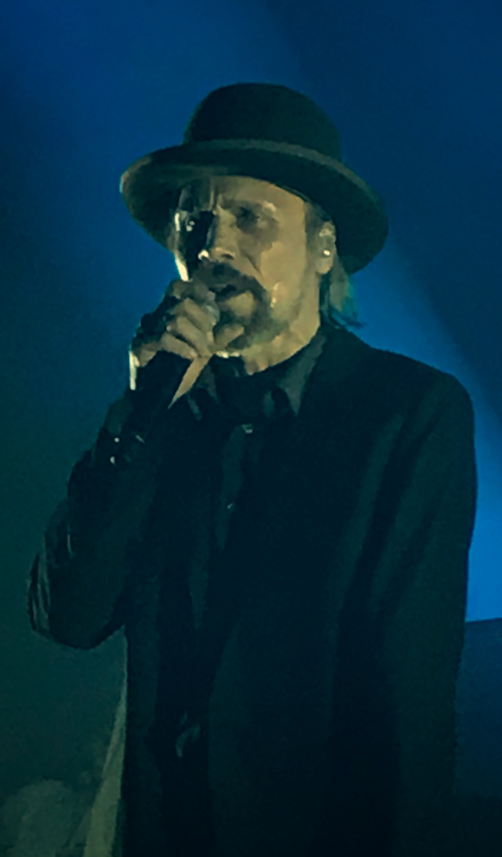 Steen Jørgensen, vocalist of Sort Sol performing at Portalen, Greve 30 March 2017